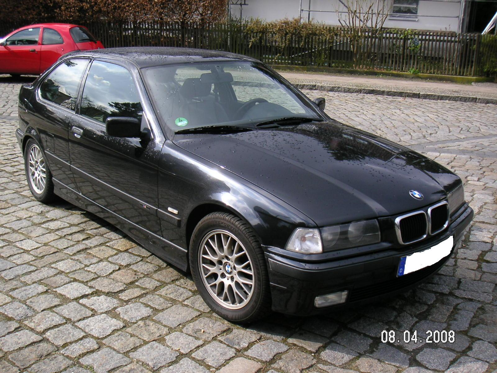 BMW 323 ti Compact E36